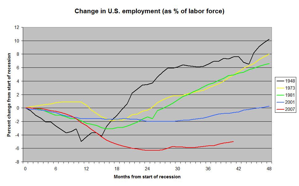 Development op employment in US during 5 different recessions.